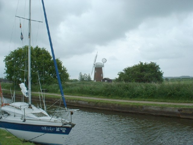 Horsey Windpump. Horsey Windpump, on the edge of the Norfolk Broads. The mill is owned by the National Trust and open to the public.